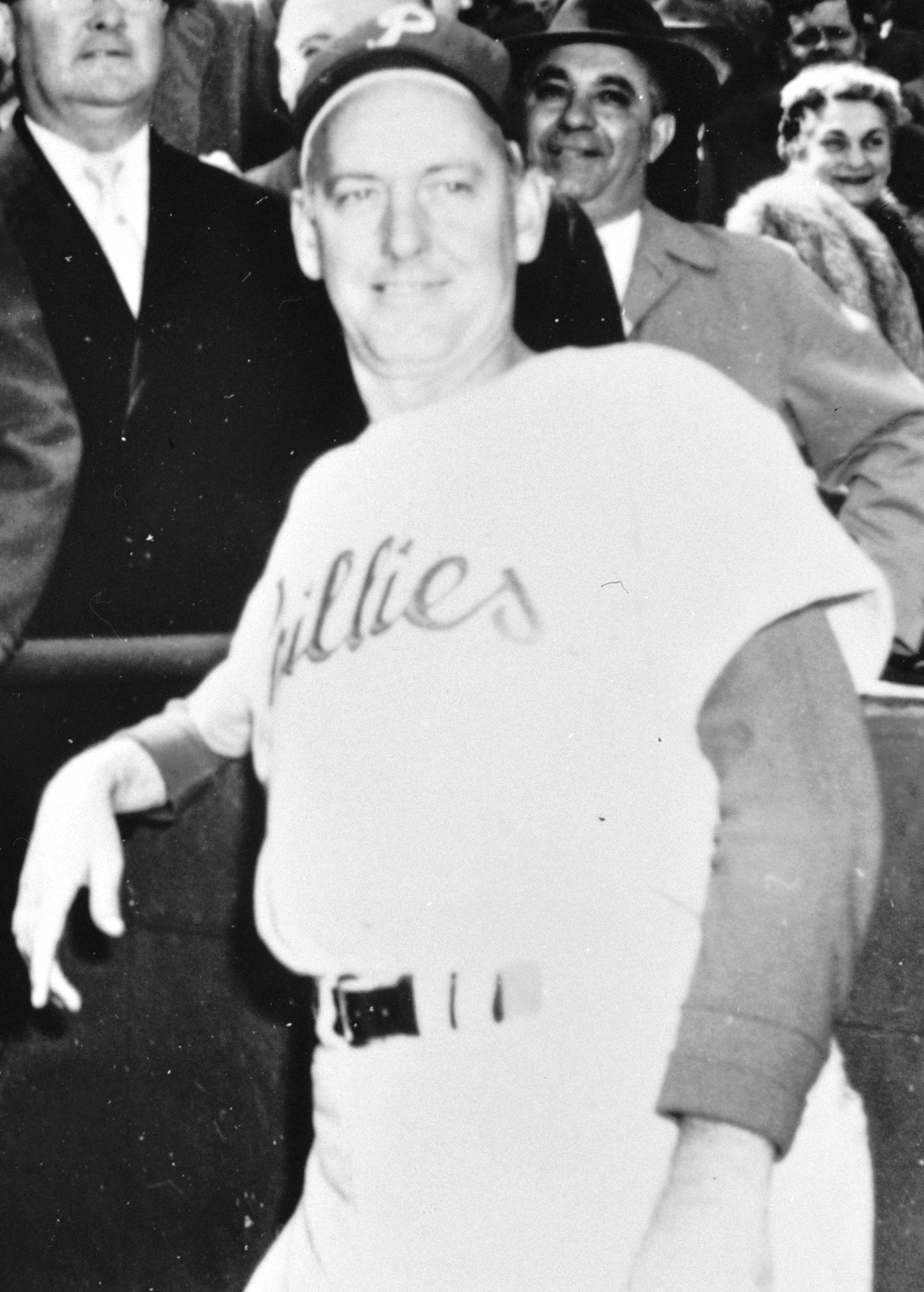 Philadelphia Phillies manager Mayo Smith before a game at Roosevelt Stadium in Jersey City, New Jersey; April 22, 1957. → This file has been extracted from another image: File:Walter Alston and Mayo Smith at Roosevelt Stadium.jpg.